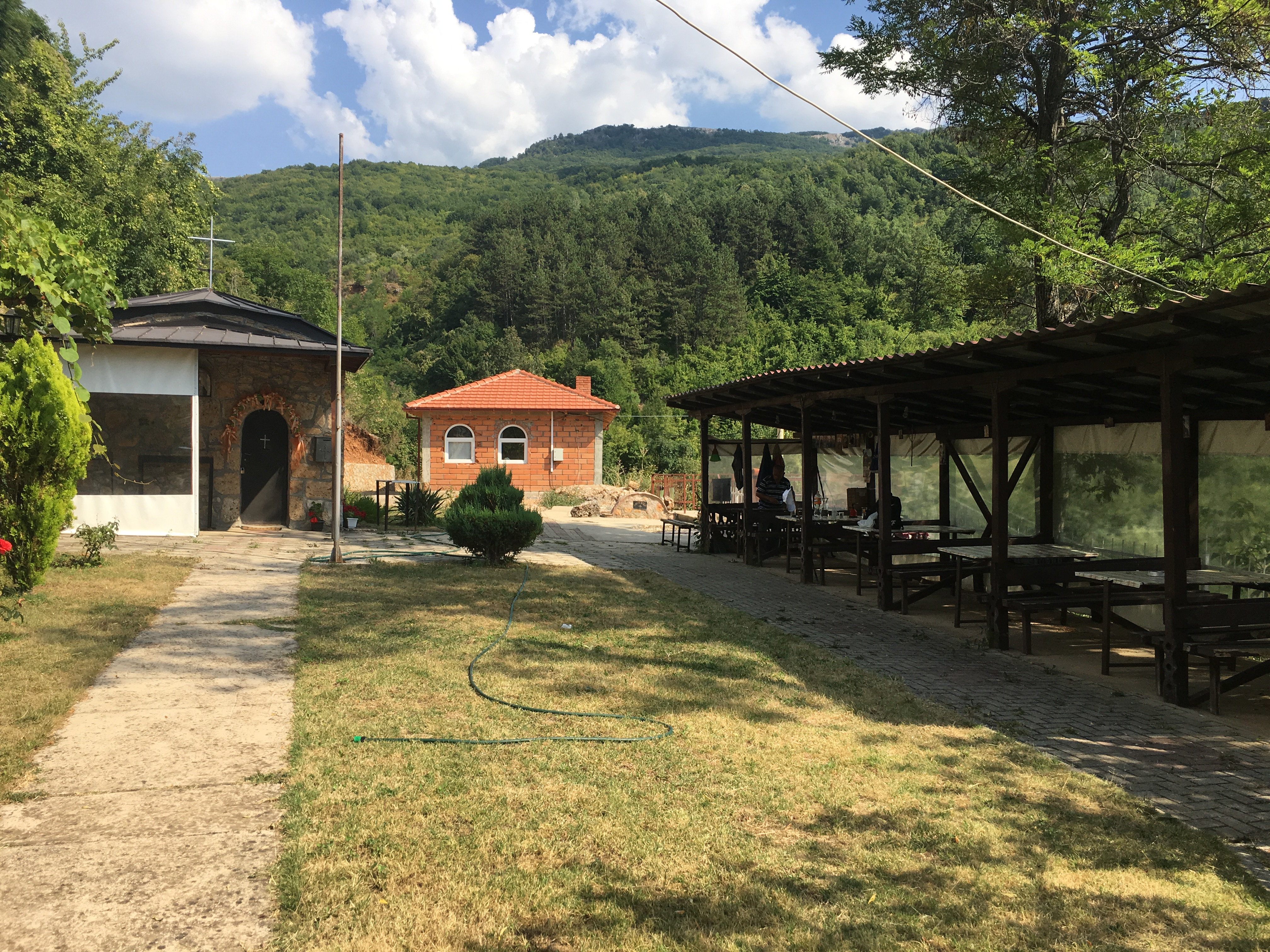 Ramne Monastery